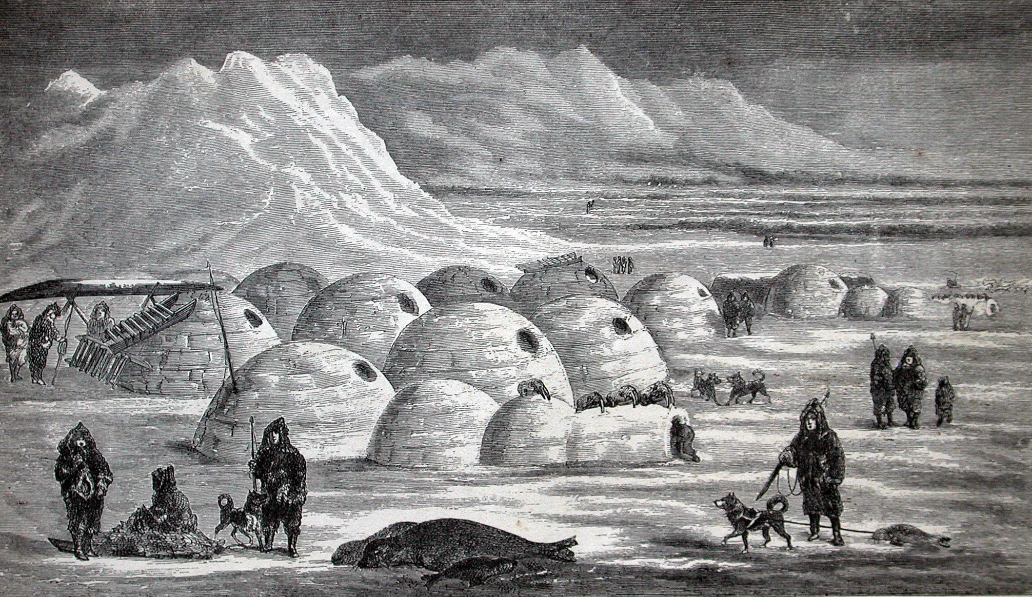 Photograph of a book illustration of an Inuit village, Oopungnewing, near Frobisher Bay on Baffin Island in the mid-19th century.